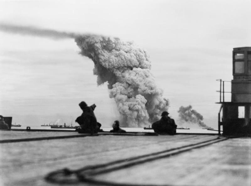 Billowing smoke marks the end of the ammunition ship SS Mary Luckenbach, seen from the deck of the escort carrier HMS Avenger (D14), during convoy PQ 18 to Russia, 13 September 1942. The ship was attacked by several German aircraft, and was hit by an aerial torpedo. The impact of the torpedo struck the ship's cargo of 1,000 tons of TNT. The explosion was so violent the ship was basically vaporized along with the entire crew. The last known location of the ship was 75 degrees north, 10 degrees east.